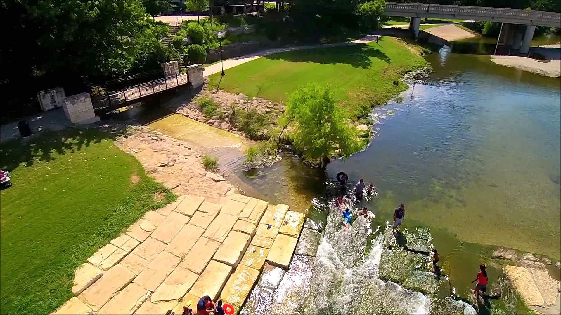 Nolan Creek in Belton Texas Tube Chutes